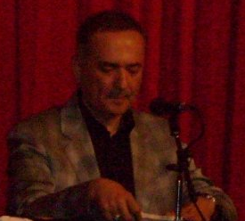 Turkish writer Murathan Mungan in reading his book "Kadından Kentler" in Diyarbakir, Turkey. (2008)